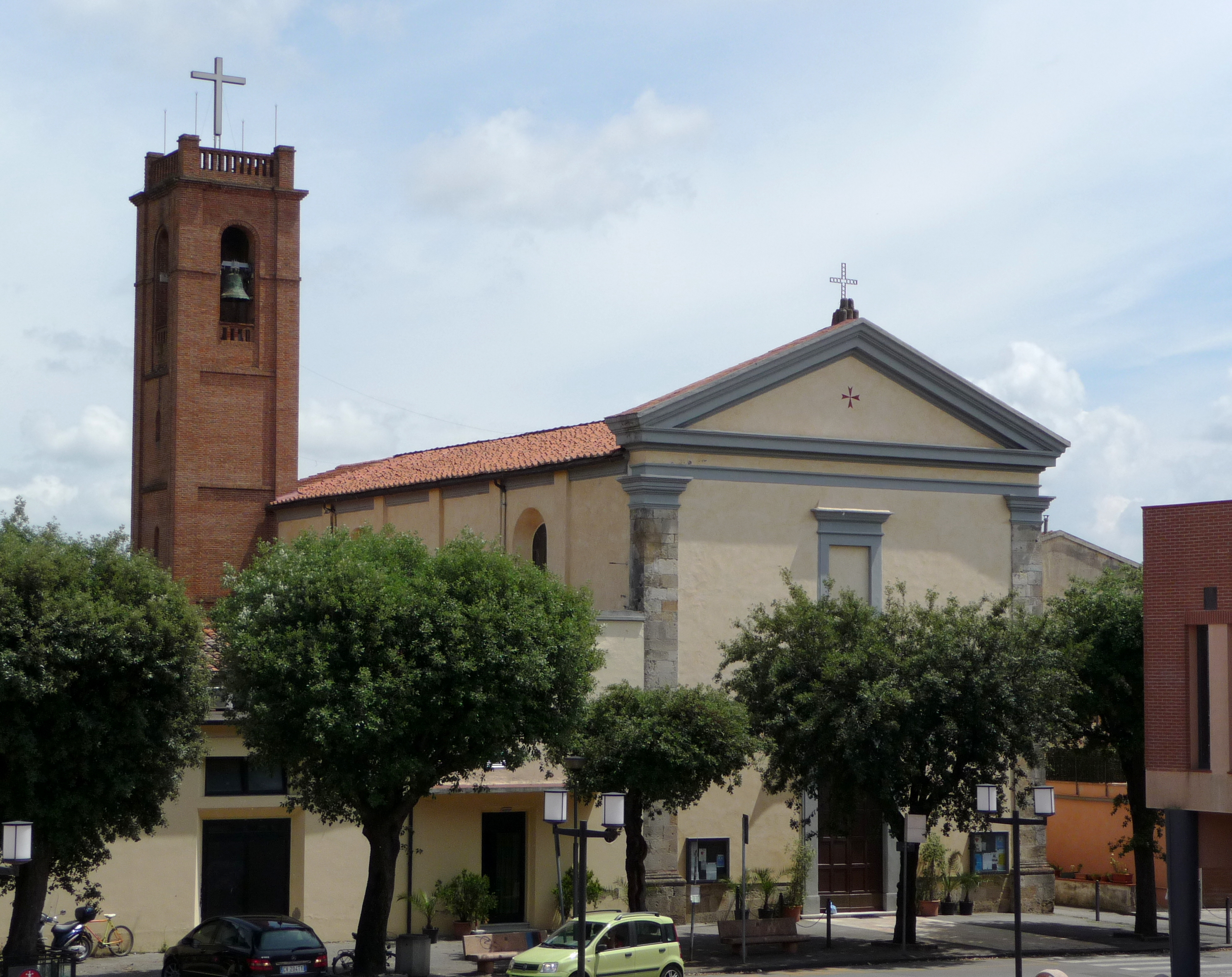 Church "Santi Ippolito e Cassiano", Riglione, Pisa, Italy